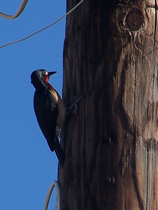 Puerto Rican Woodpecker (Melanerpes portoricensis) (Daudin, 1803) in a wood enery post